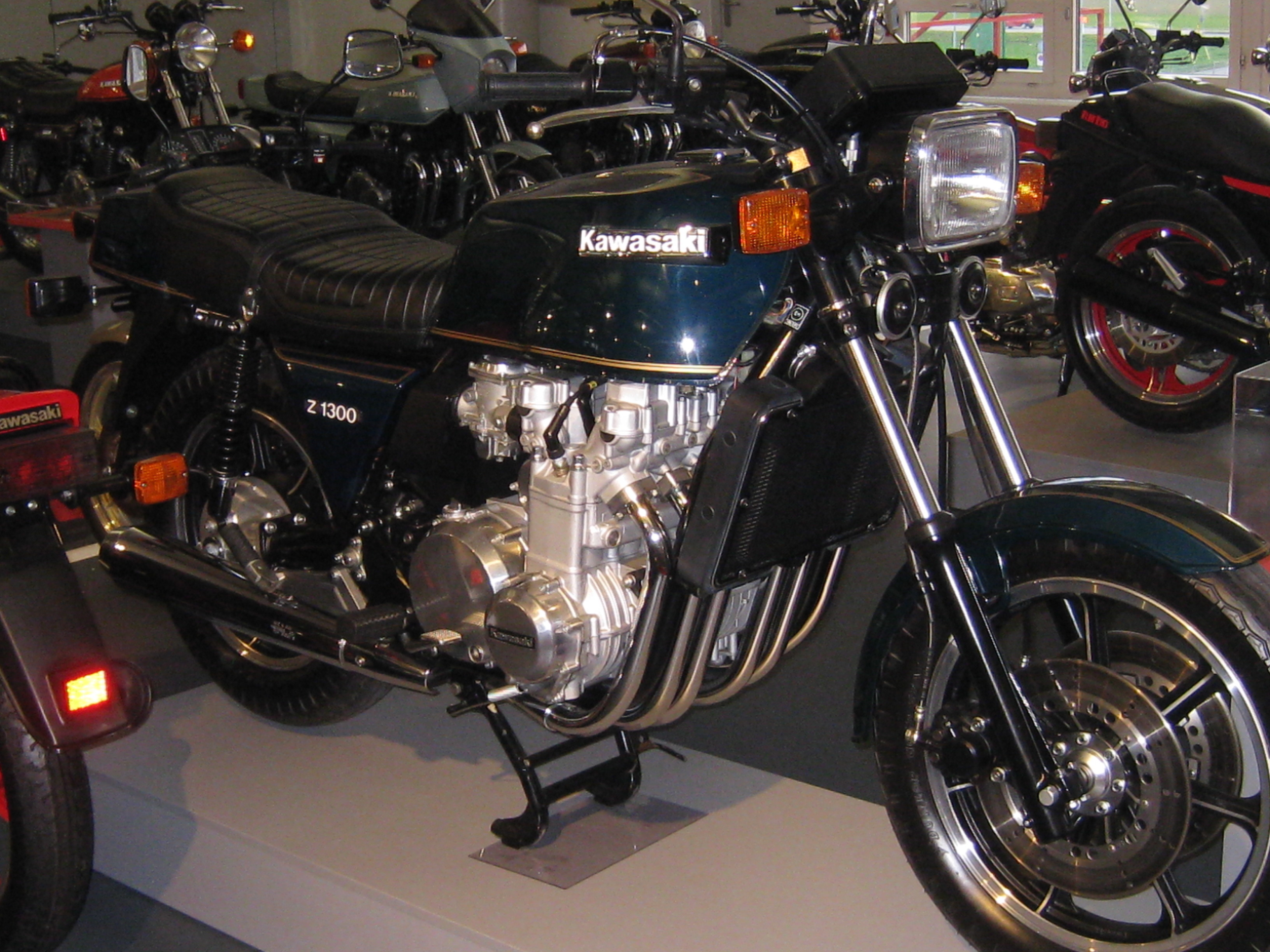 Kawasaki motorcycle @ FIBAG Switzerland